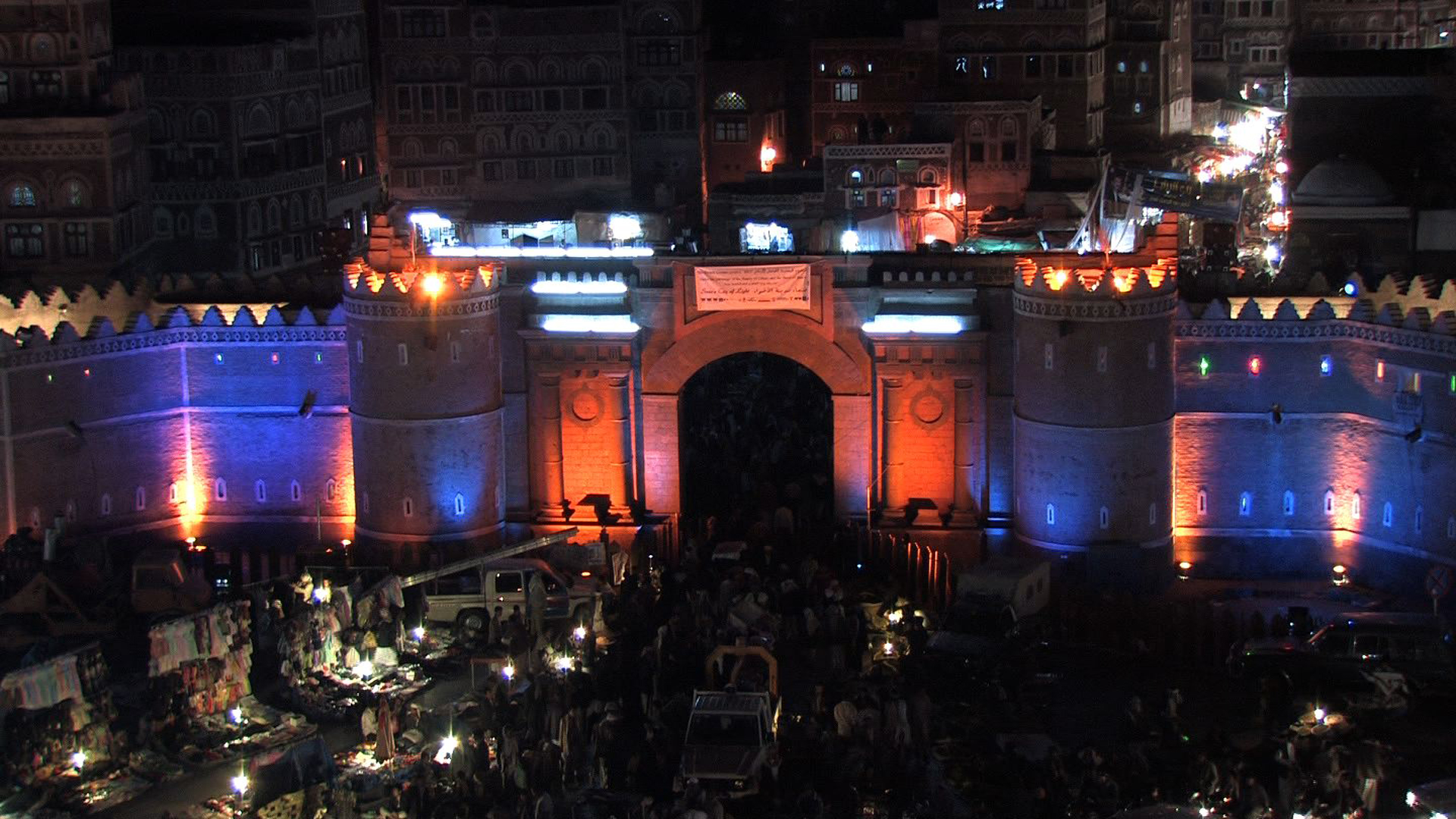 audiovisual installation "Sana'a - City of Lights" by René Liebert, Tobias Rosenberger & Matthias Mohr Photo by René Liebert